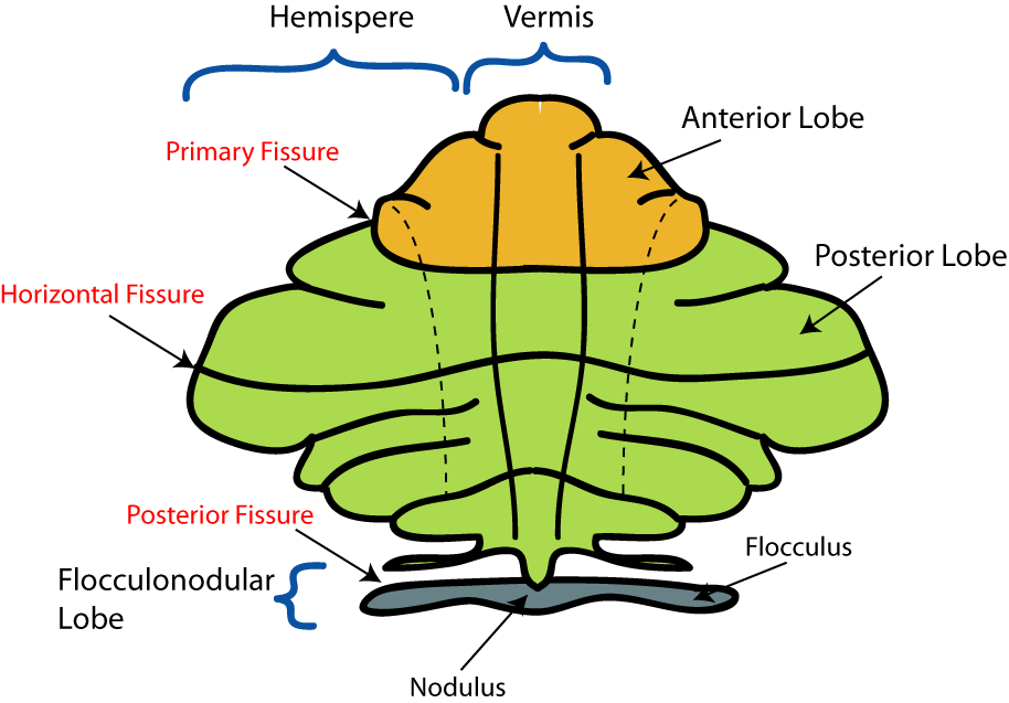 Schematic representation of the major anatomical divisions of the cerebellum. Drawn by me.